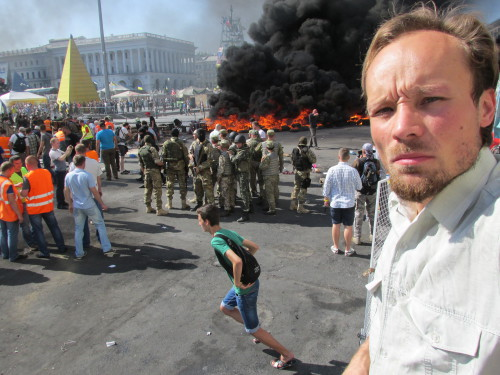 Journalist Billy Six